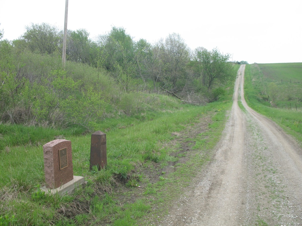 Corner monument indicating the start of the Sullivan Line (the Missouri and Iowa border north of Sheridan. Photo by poster in May 2007.